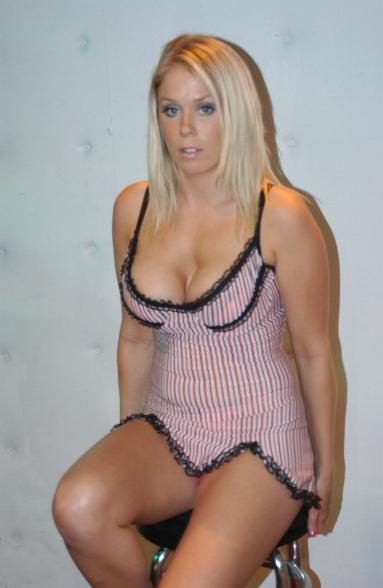 Jamie Brooks, On Set With Defiance Films, July 13, 2005.